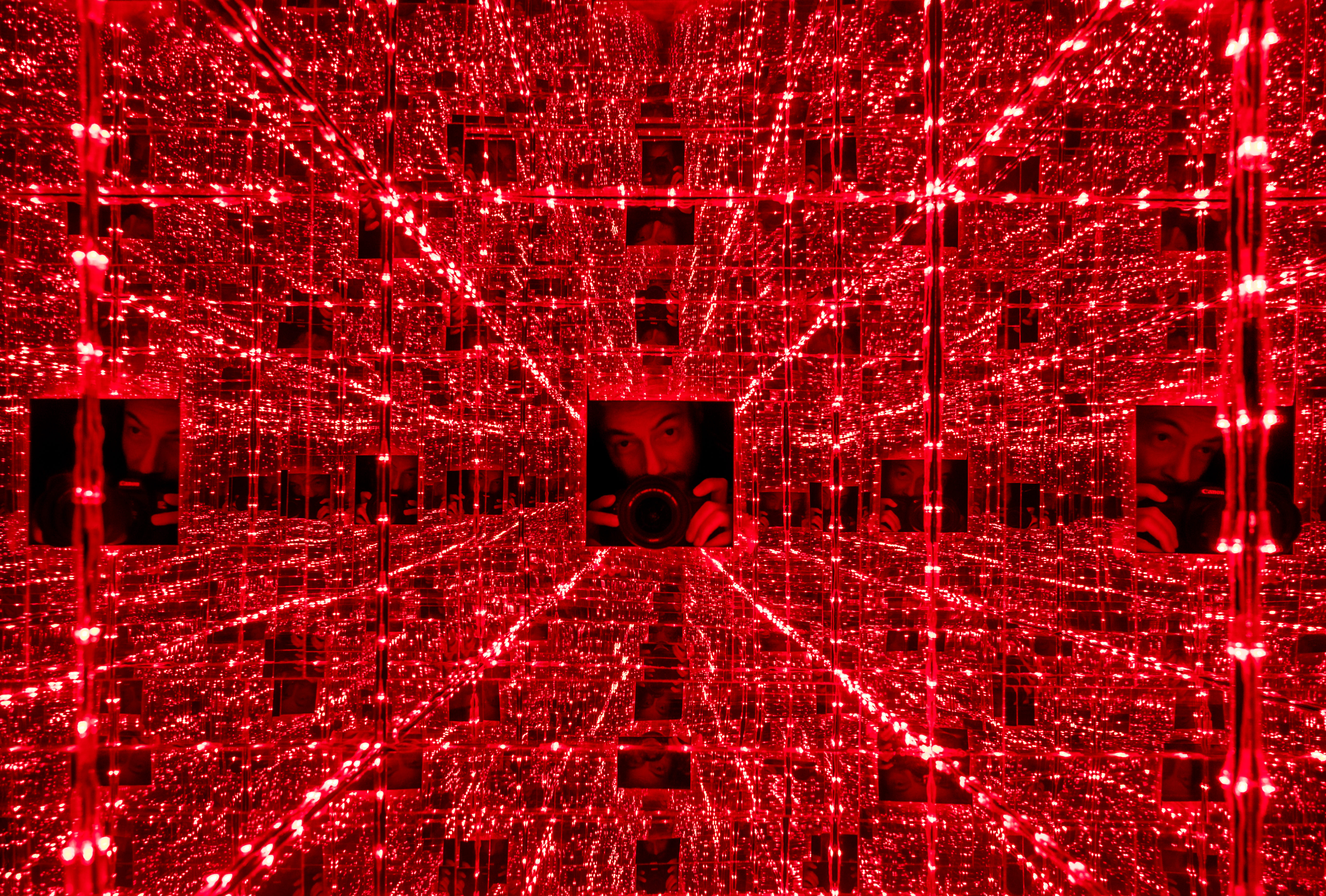 Droste effect with red lighting as part of the Interference visual effects event in the Medina of Tunis, Tunisia.